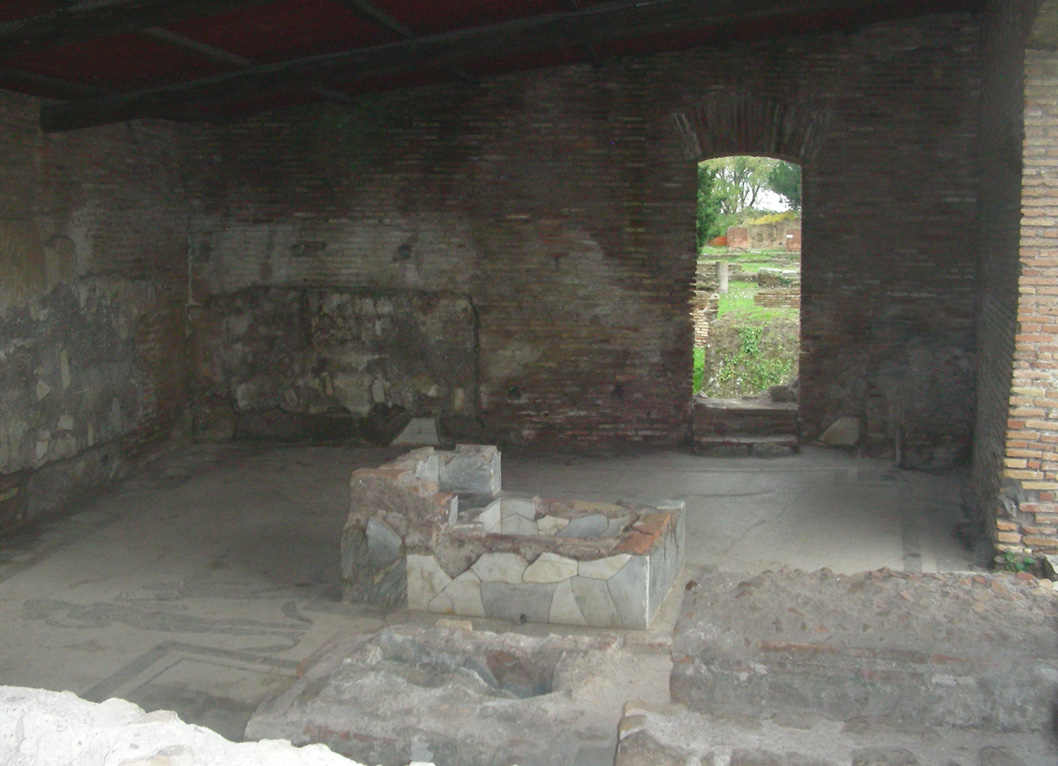 Ostia Antica, archaeological site, "Caupona di Alexander"